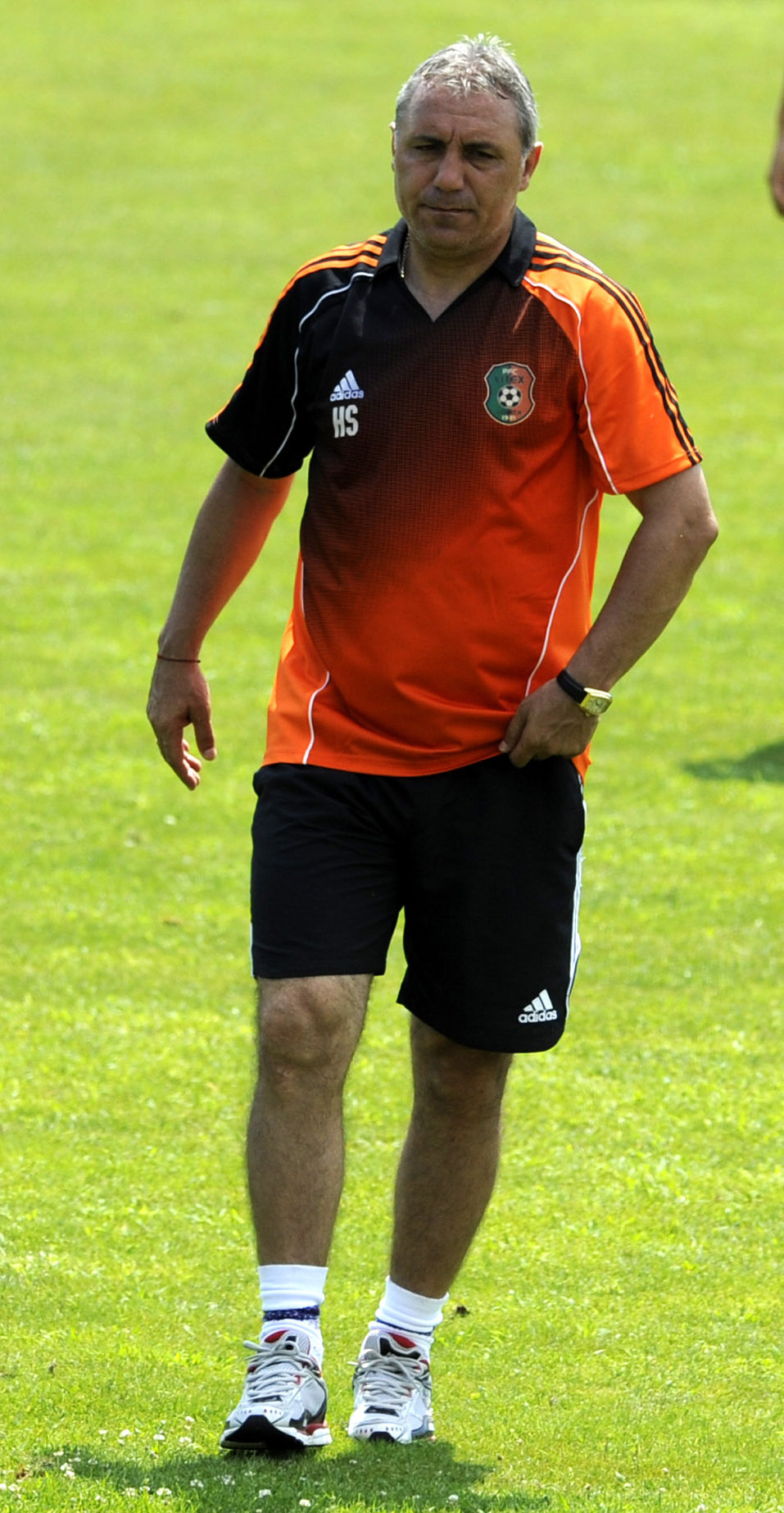 Hristo Stoichkov